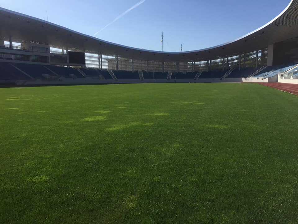 Inside the new Stadionul Tudor Vladimirescu in Târgu Jiu, Romania (team Pandurii Târgu Jiu)